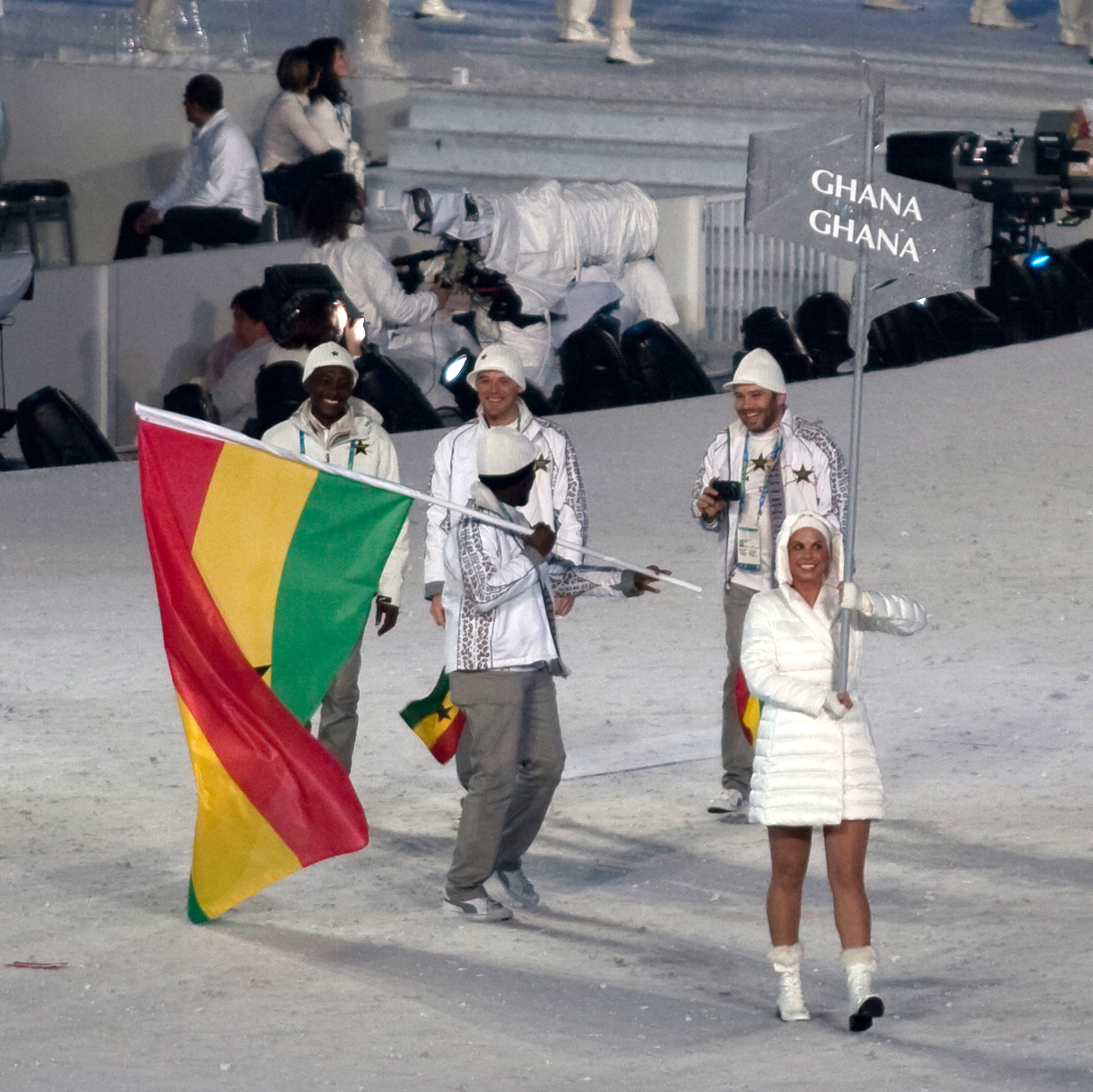 The athletes from Ghana entering the stadium at the opening ceremonies of the 2010 Winter Olympics